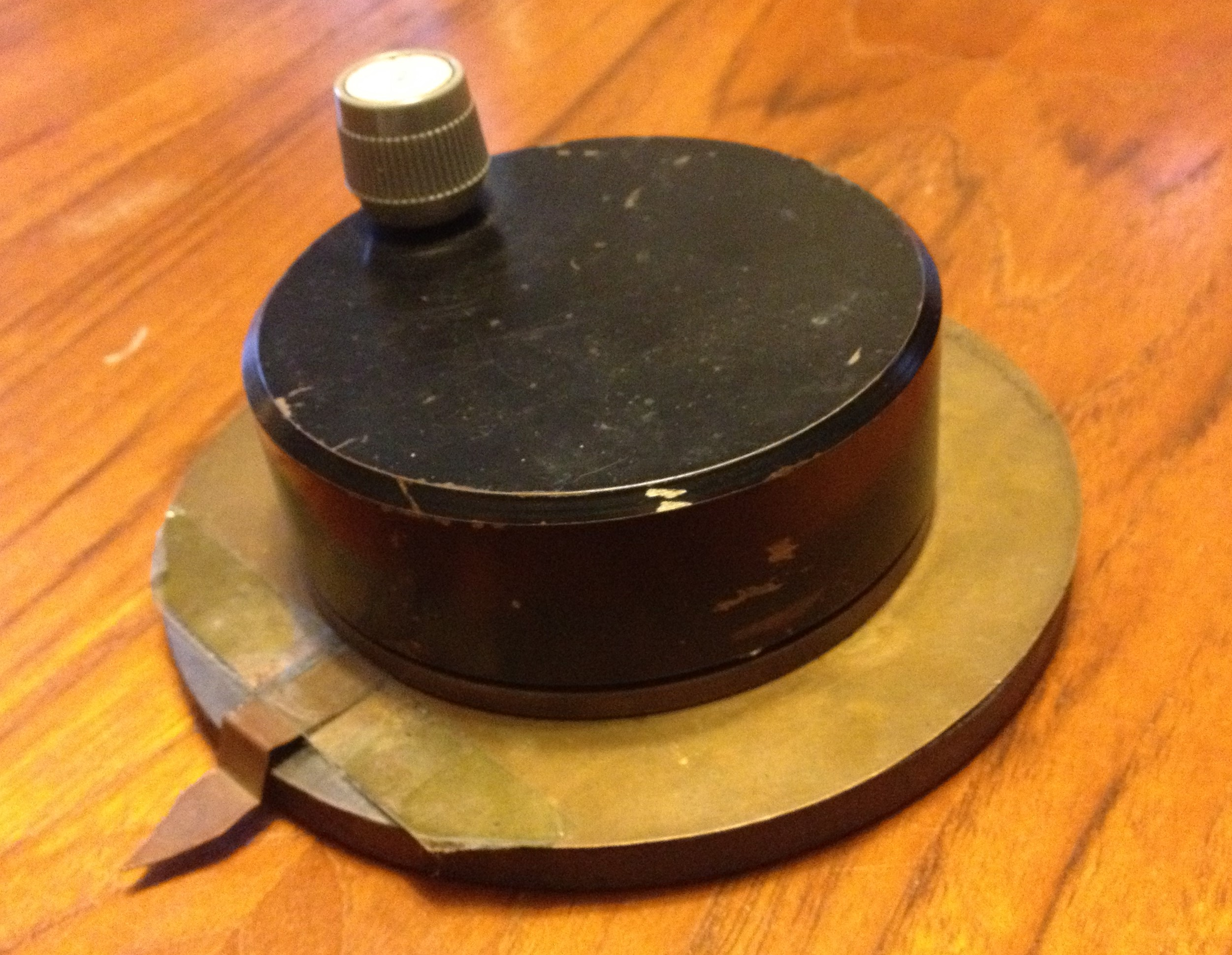 The first prototype of the Donatror mechanism made by Rine Dona.